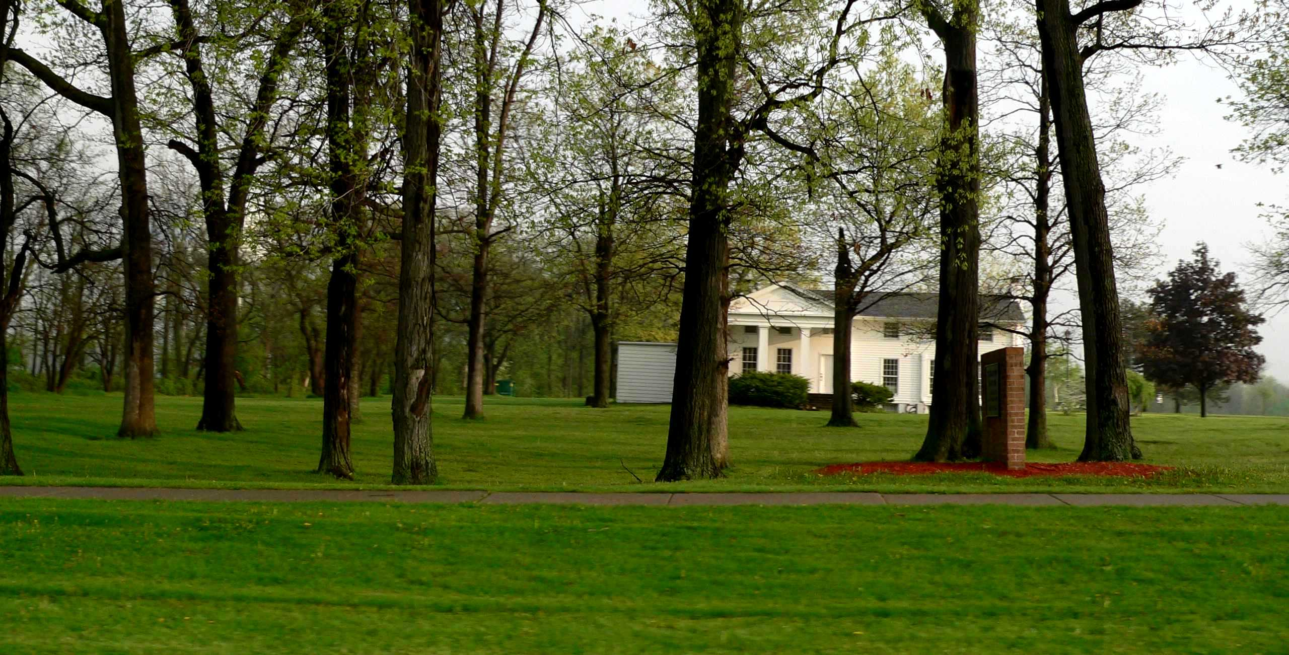 The Ypsilanti Public Schools' offices, on Packard Road in Ypsilanti, Michigan, in 2007.